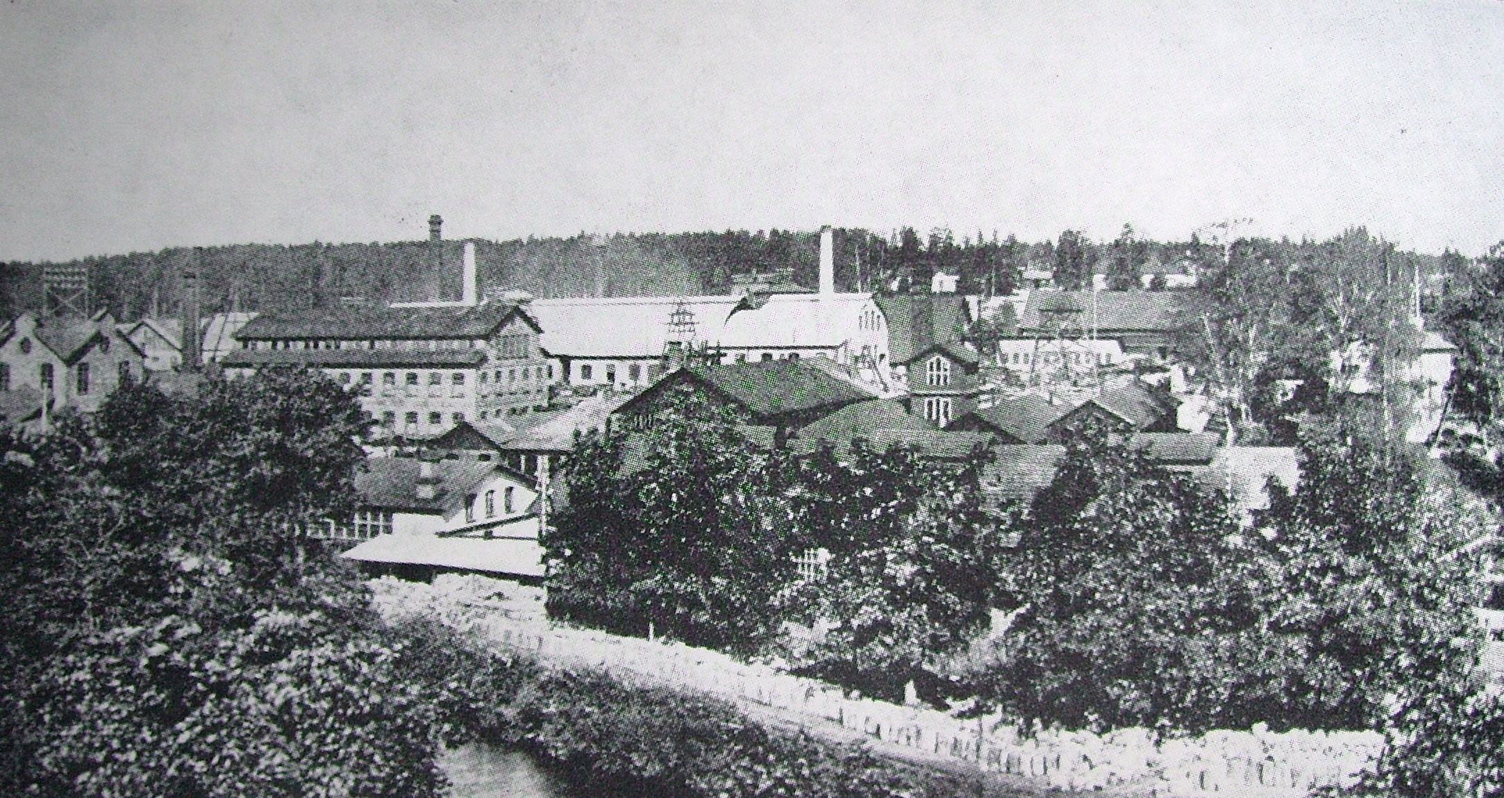 Picture of Fagersta bruk in Västmanland